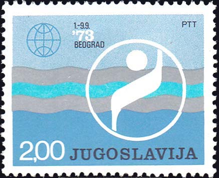 Yugoslav stamp dedicated to the 1973 World Aquatics Championships